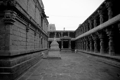 Draksharamam Kumara Bheemeswara Swami Devalaya